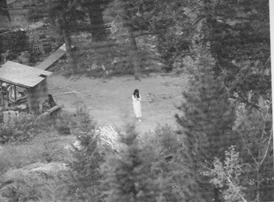 Surveillance photograph of Vicki Weaver, 21 August 1992